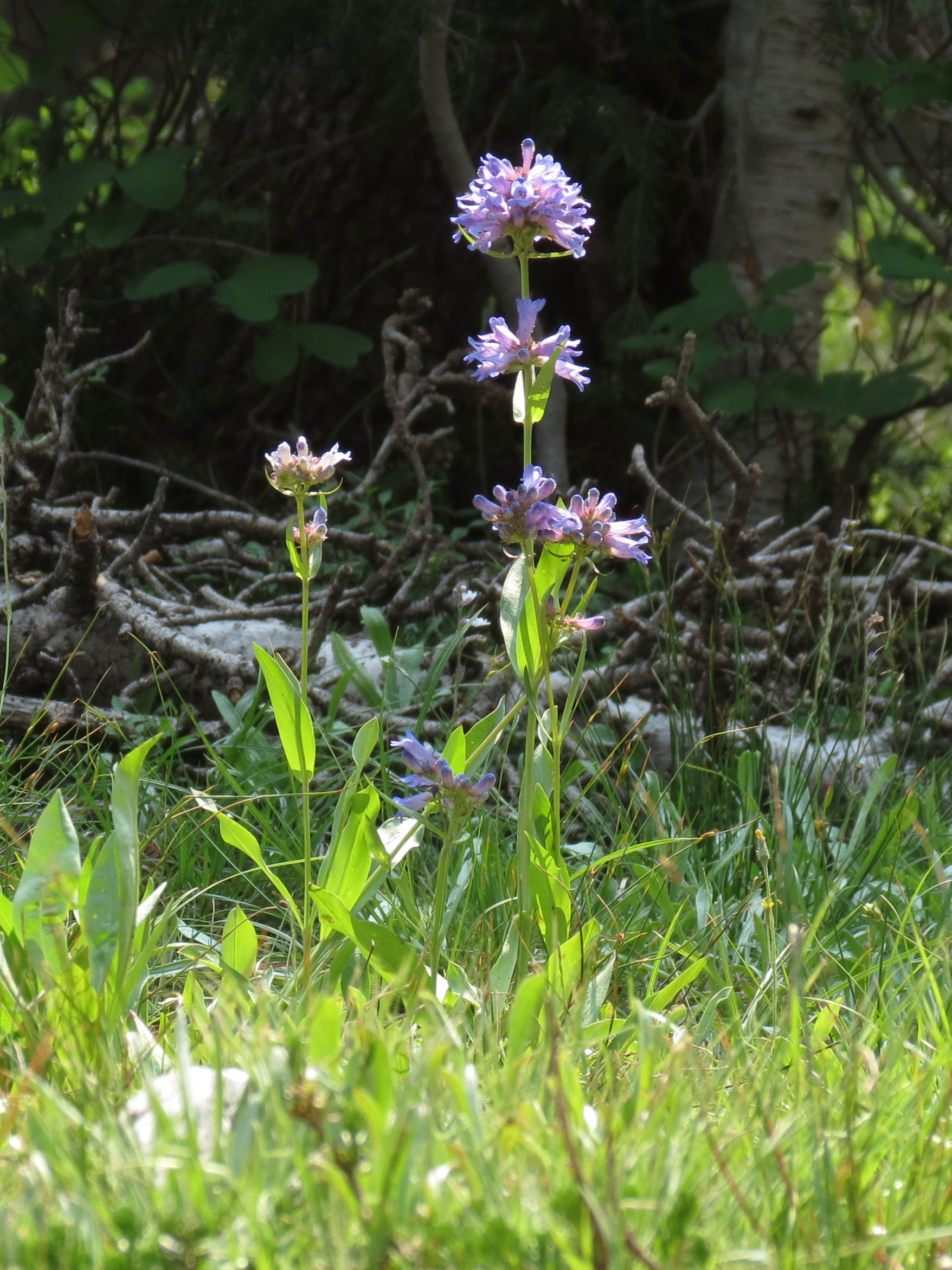 Penstemon rydbergii. Sawtooth National Forest near Stanley, Idaho.